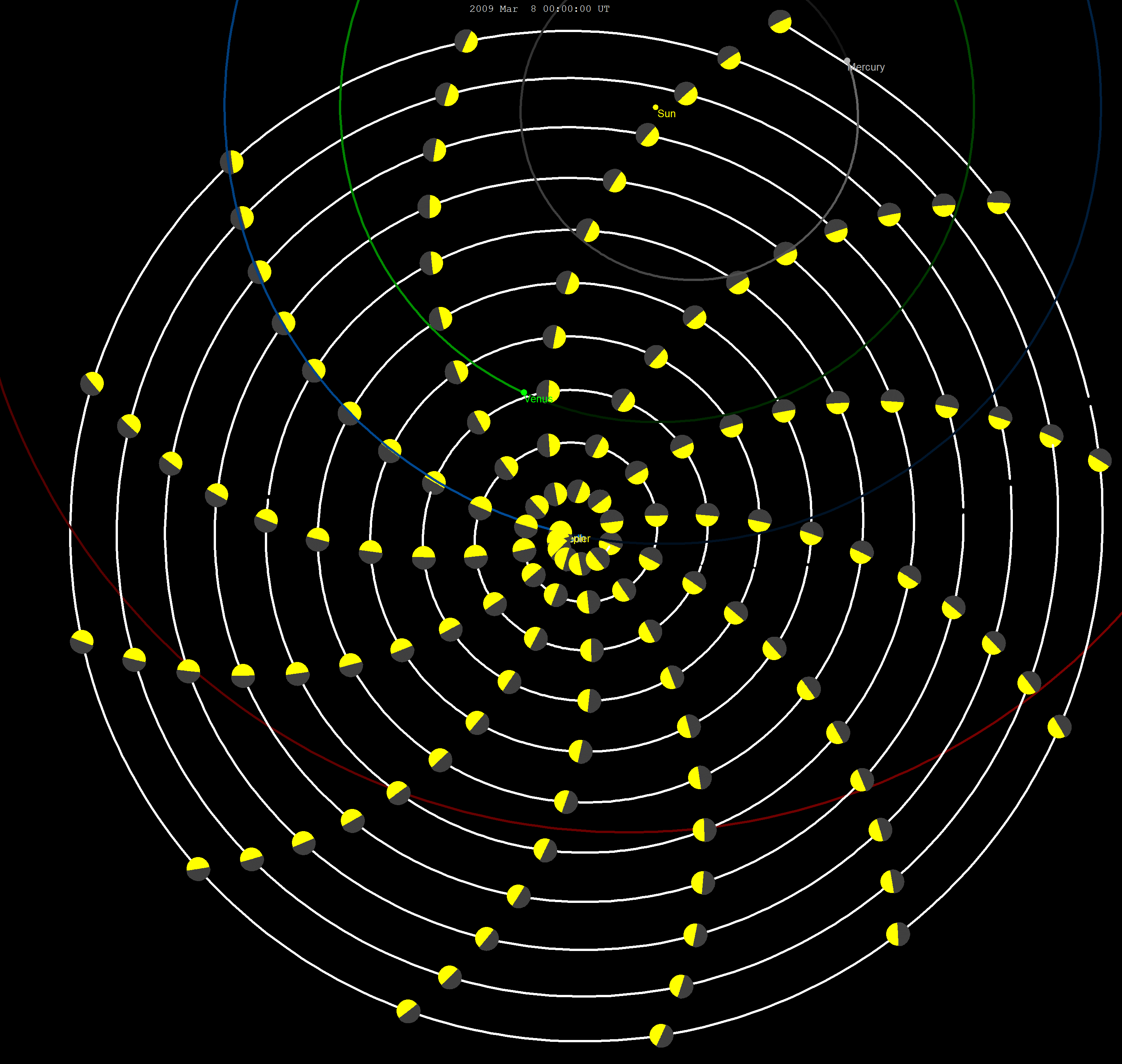 Kepler (spacecraft) orbit relative to the earth, with symbol positions every 1/12 year.